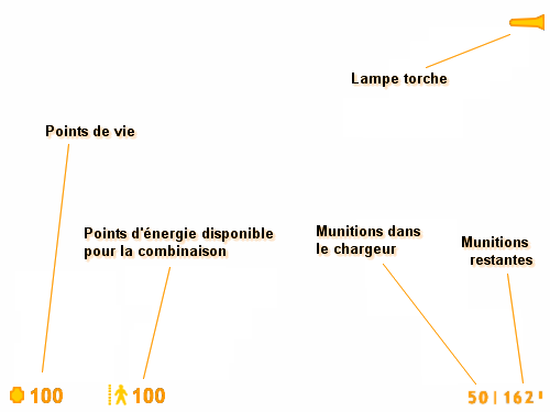 Half-Life HUD